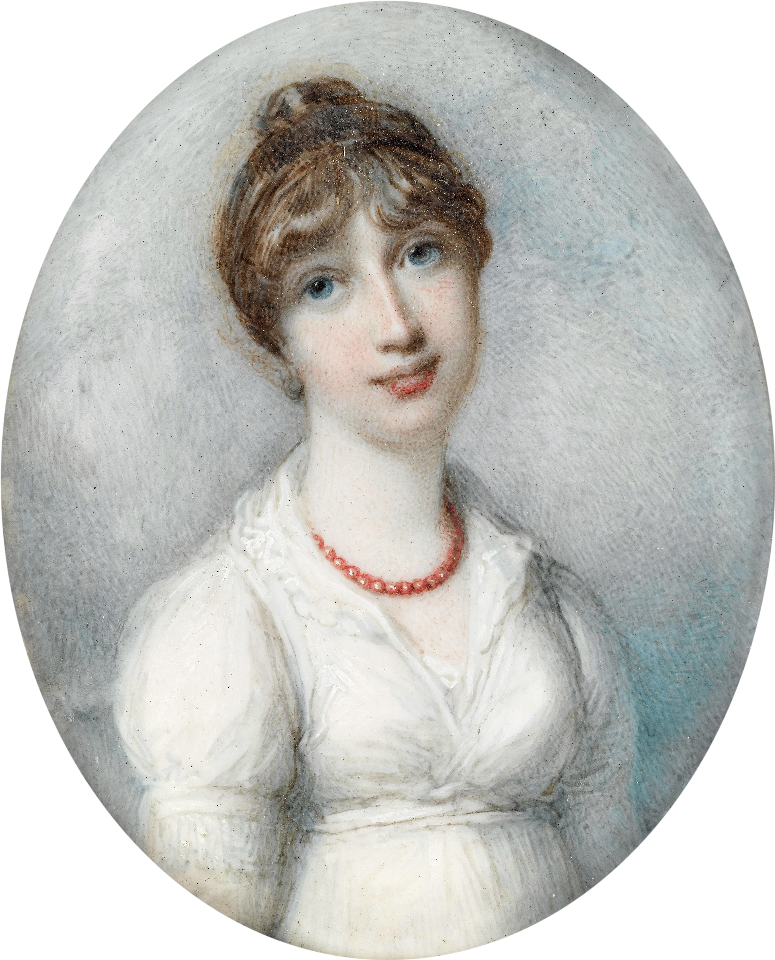 Mary Henrietta Juliana Pelham née Osborne, Countess of Chichester (1776-1862) watercolour on ivory 7.6 cm high